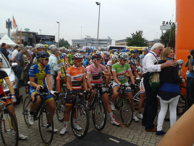 Start of stage 5 of the 2013 Holland Ladies Tour. Trixi Worrack (orange jersey), Ellen van Dijk (red/white jersey), Kirsten Wild (green jersey)